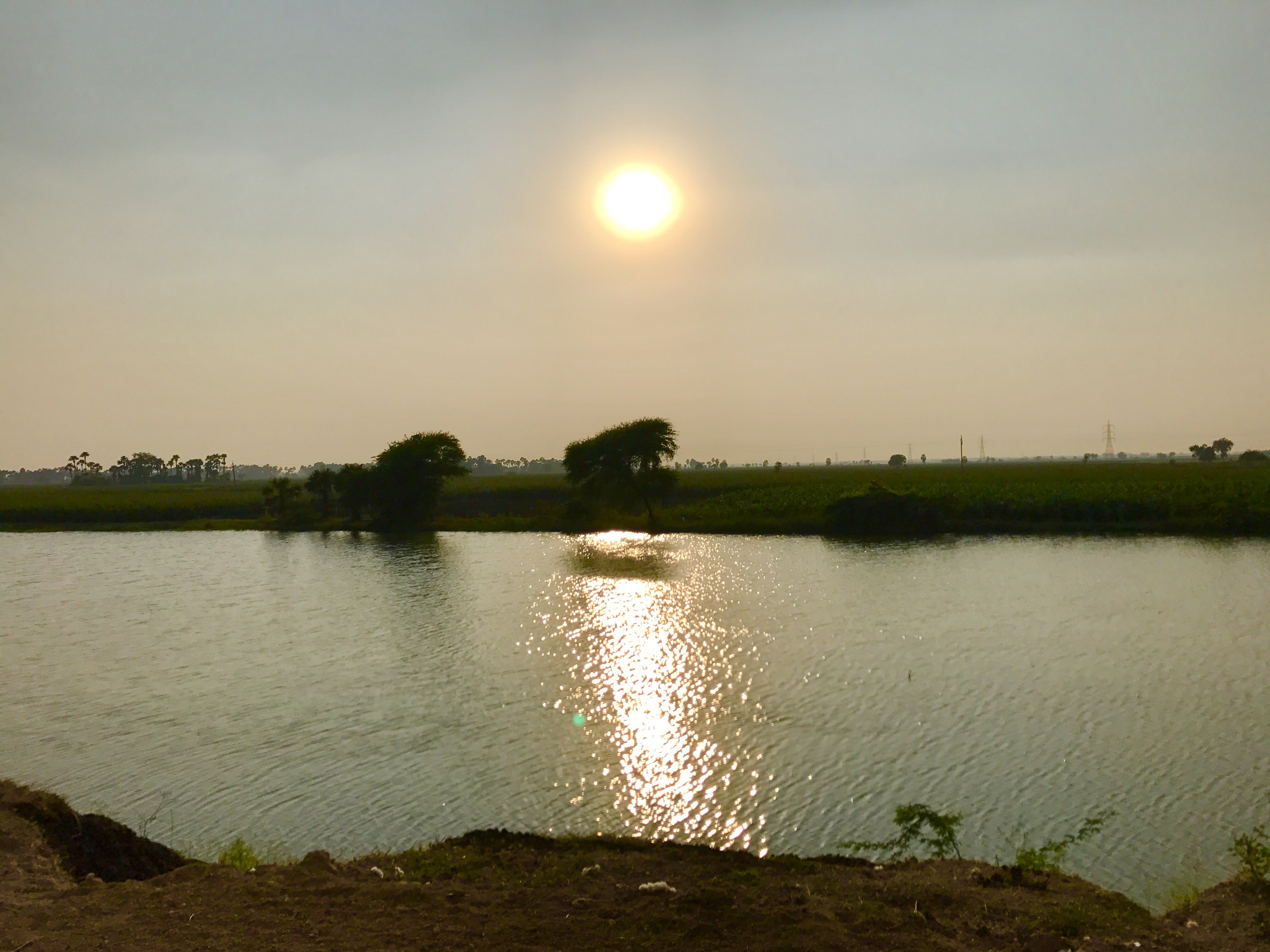 A pond near Narukullapadu Village